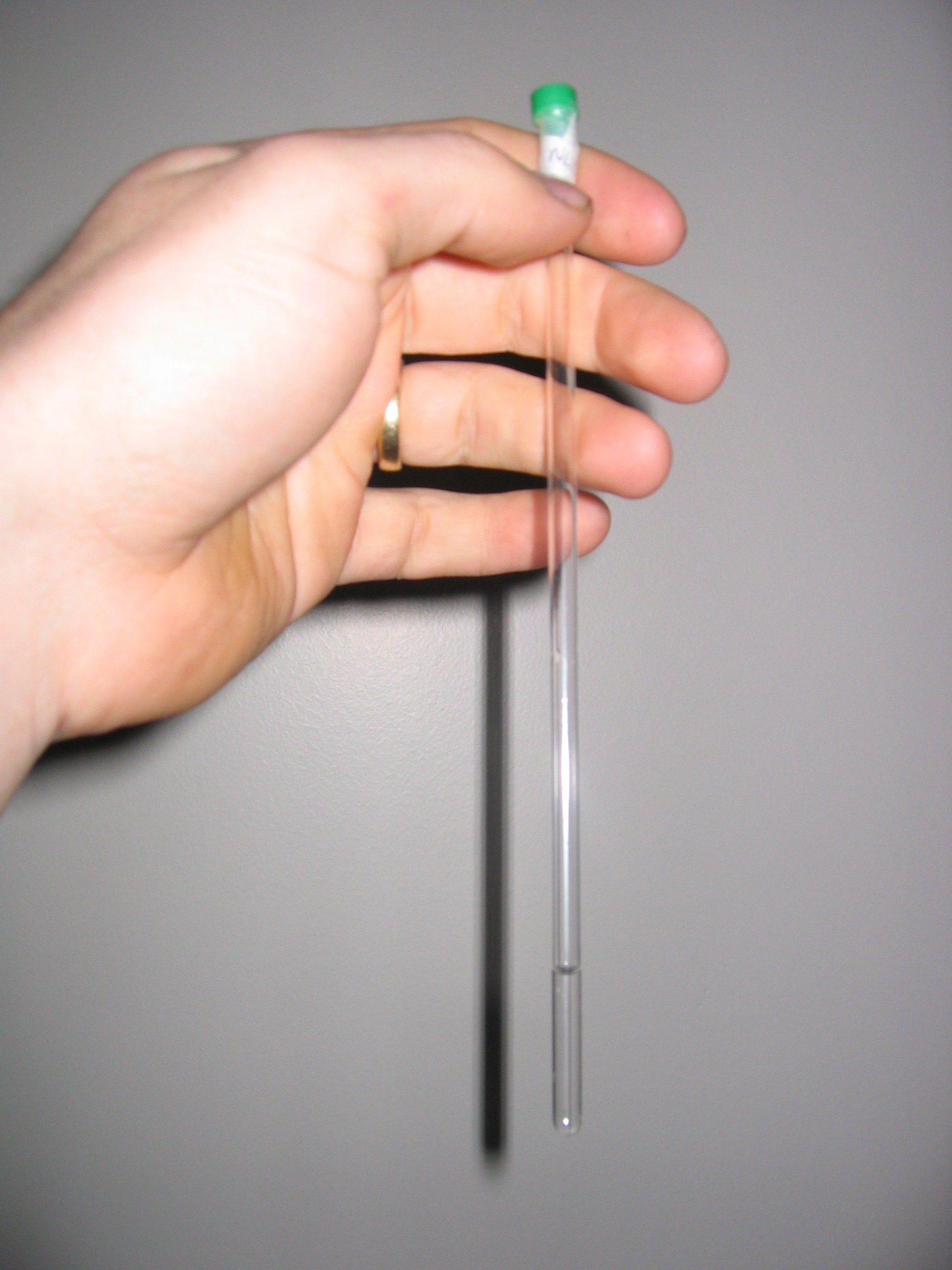 Picture taken by User:Kjaergaard. A NMR tube with a protein sample.